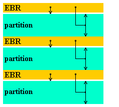 Extended boot record